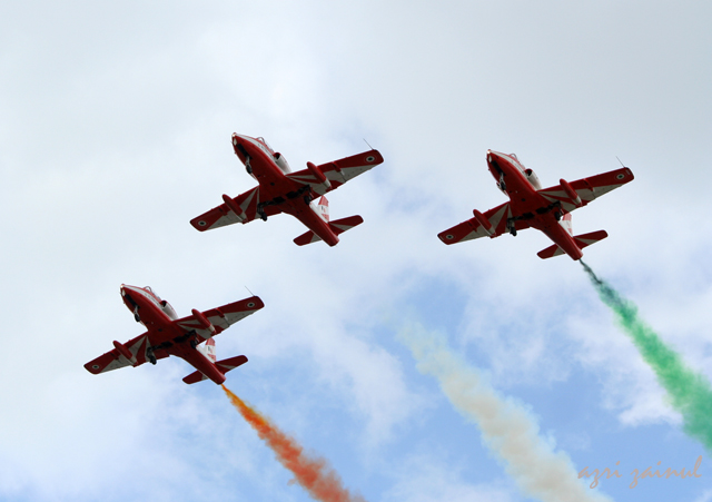 Indian Airforce Aerobatic Team during LIMA 07